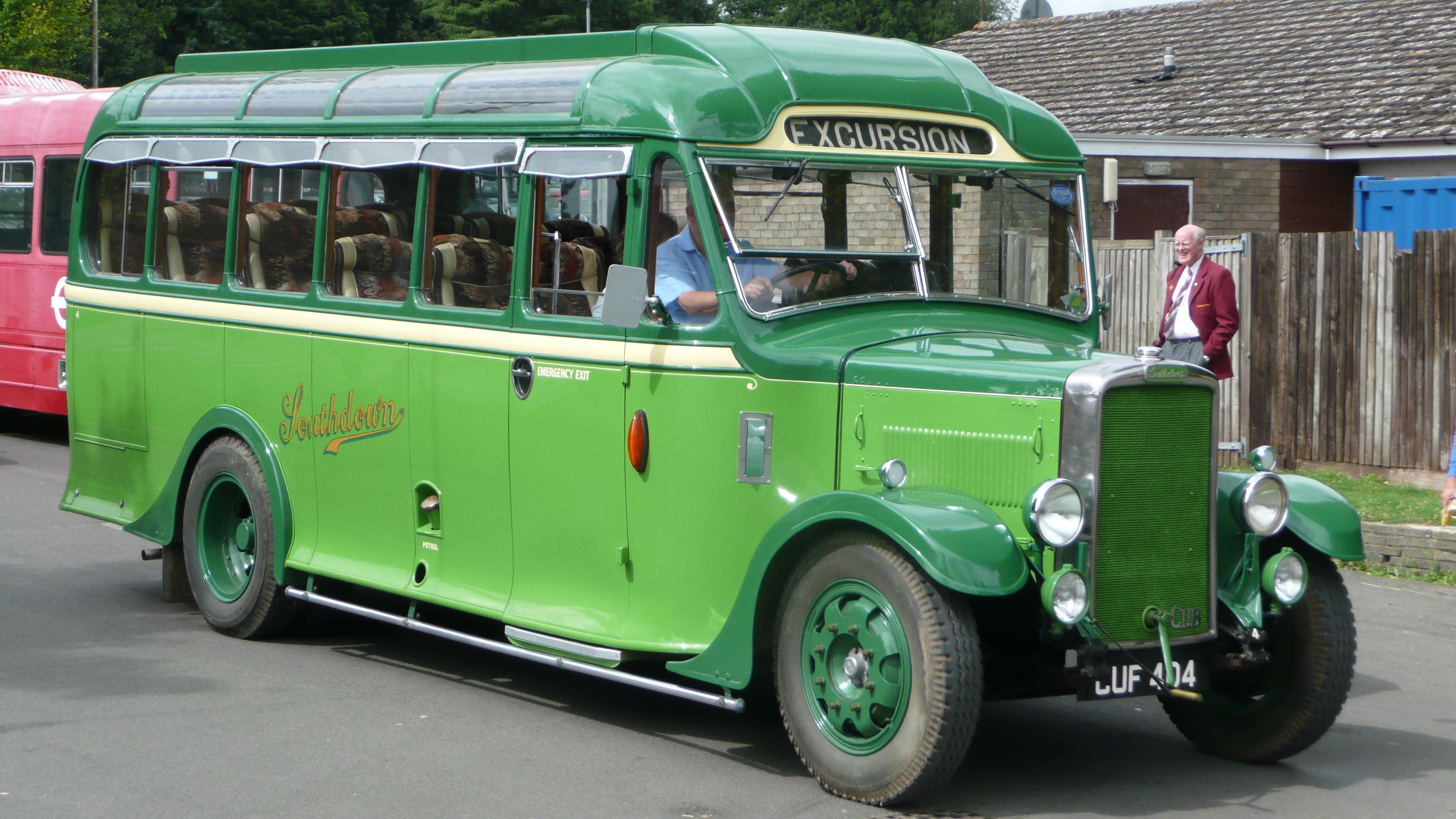 Preserved Southdown Motor Services CUF 404, a 1936 Leyland Cub/Harrington, at the 2008 Alton bus rally at Anstey Park.